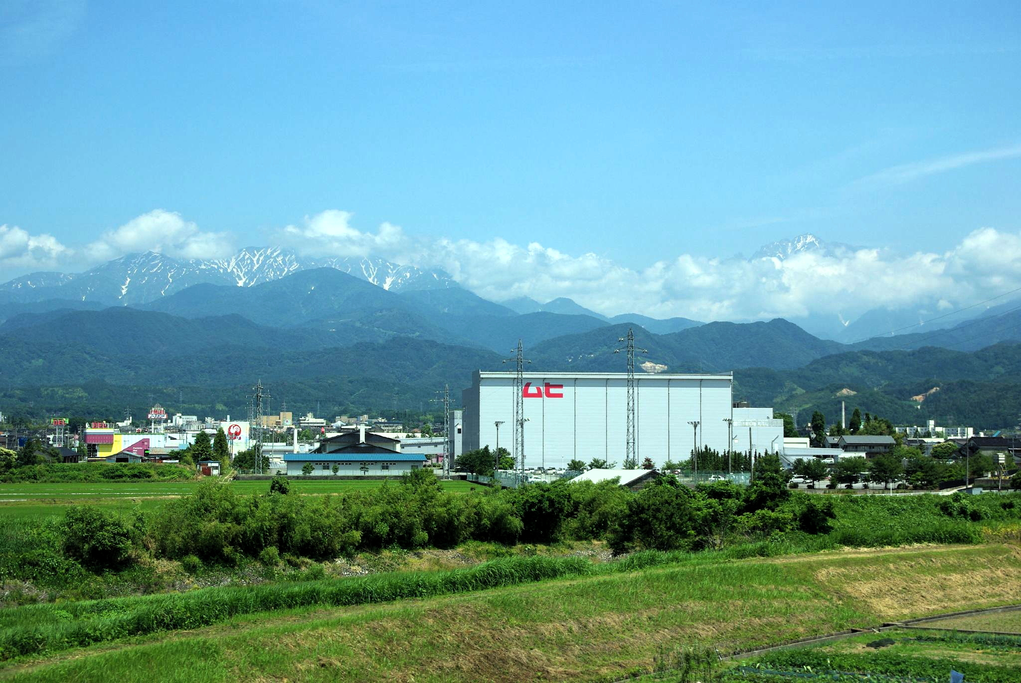 Muhi with view of mountaints, in Kamiichi-machi, Toyama Prefecture, Japan.